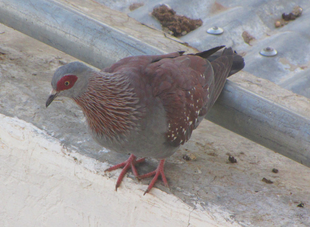 Speckled Pigeon (Columba guinea), Arusha, Tanzania